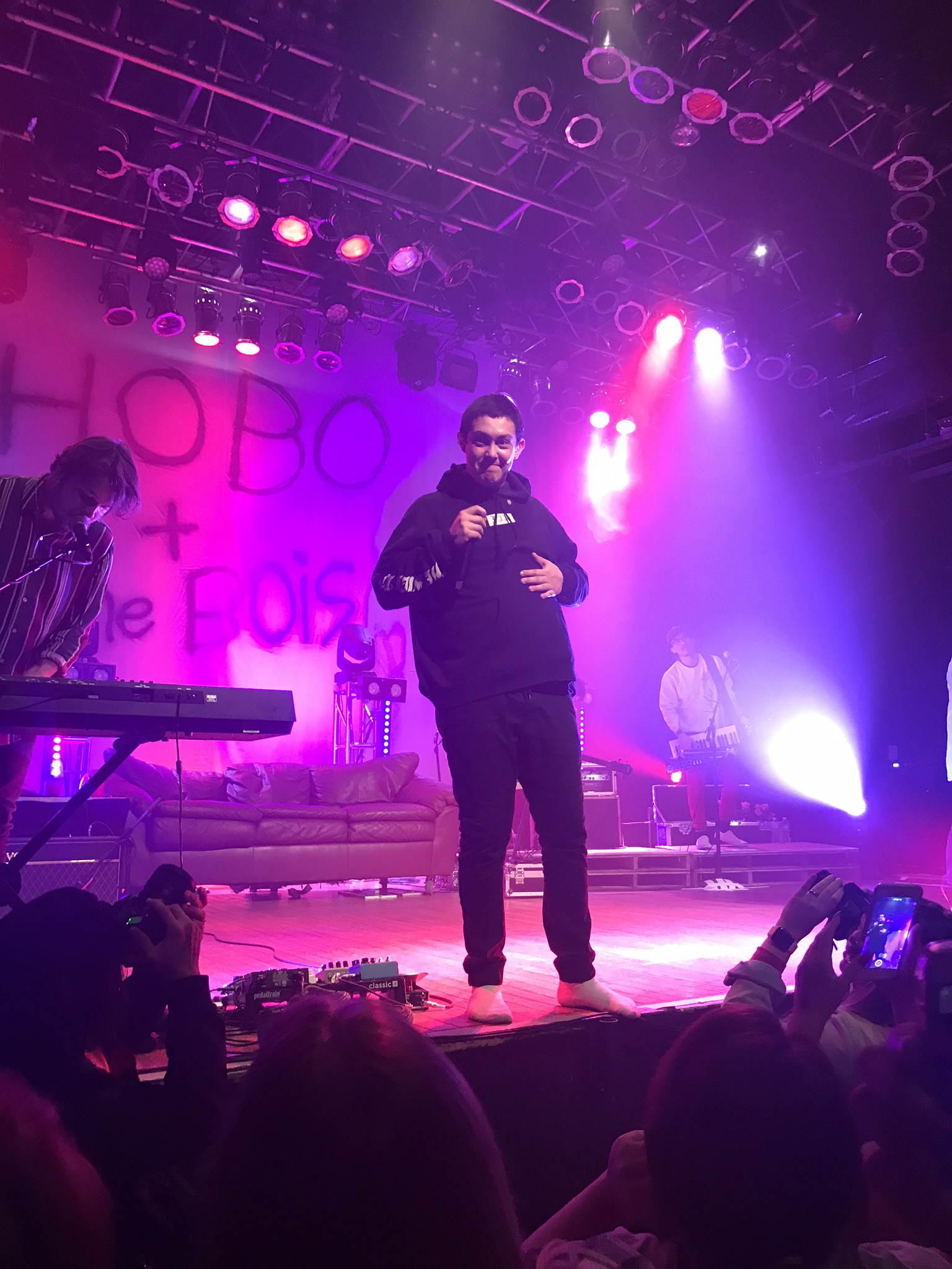 Hobo Johnson & The Lovemakers performing on the "Bring Your Mom Tour" at the House of Blues Cleveland